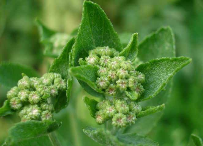 Tanacetum balsamita cv.majus Butonen. Cultivar: canonic Yuri Khanon